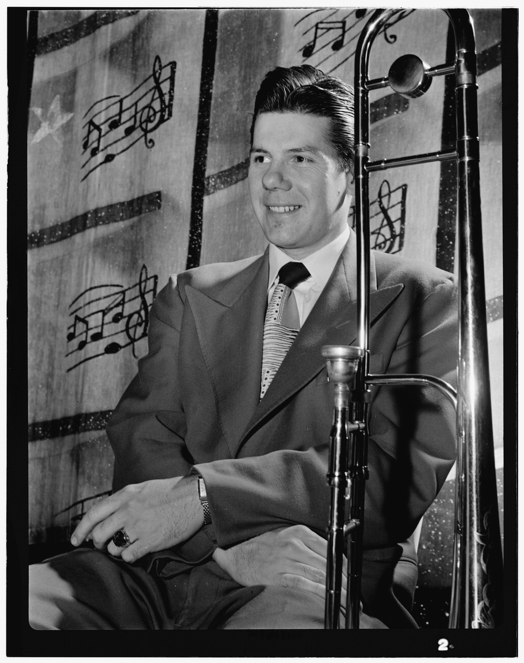 Harry Betts. Gottlieb, William P., 1917-, photographer. [Portrait of Harry Betts, Richmond, Va.(?), 1947 or 1948] 1 negative : b&w ; 3 1/4 x 4 1/4 in. Notes: Gottlieb Collection Assignment No. 169 Purchase William P. Gottlieb Forms part of: William P. Gottlieb Collection (Library of Congress). Subjects: Betts, Harry Stan Kenton Orchestra Jazz musicians--1940-1950. Trombonists--1940-1950. Format: Portrait photographs--1940-1950. Film negatives--1940-1950. Rights Info: Mr. Gottlieb has dedicated these works to the public domain, but rights of privacy and publicity may apply. Repository: (negative) Library of Congress, Prints & Photographs Division, Washington D.C. 20540 USA, Part Of: William P. Gottlieb Collection (DLC) 99-401005 General information about the Gottlieb Collection is available at Persistent URL: Call Number: LC-GLB23- 1319